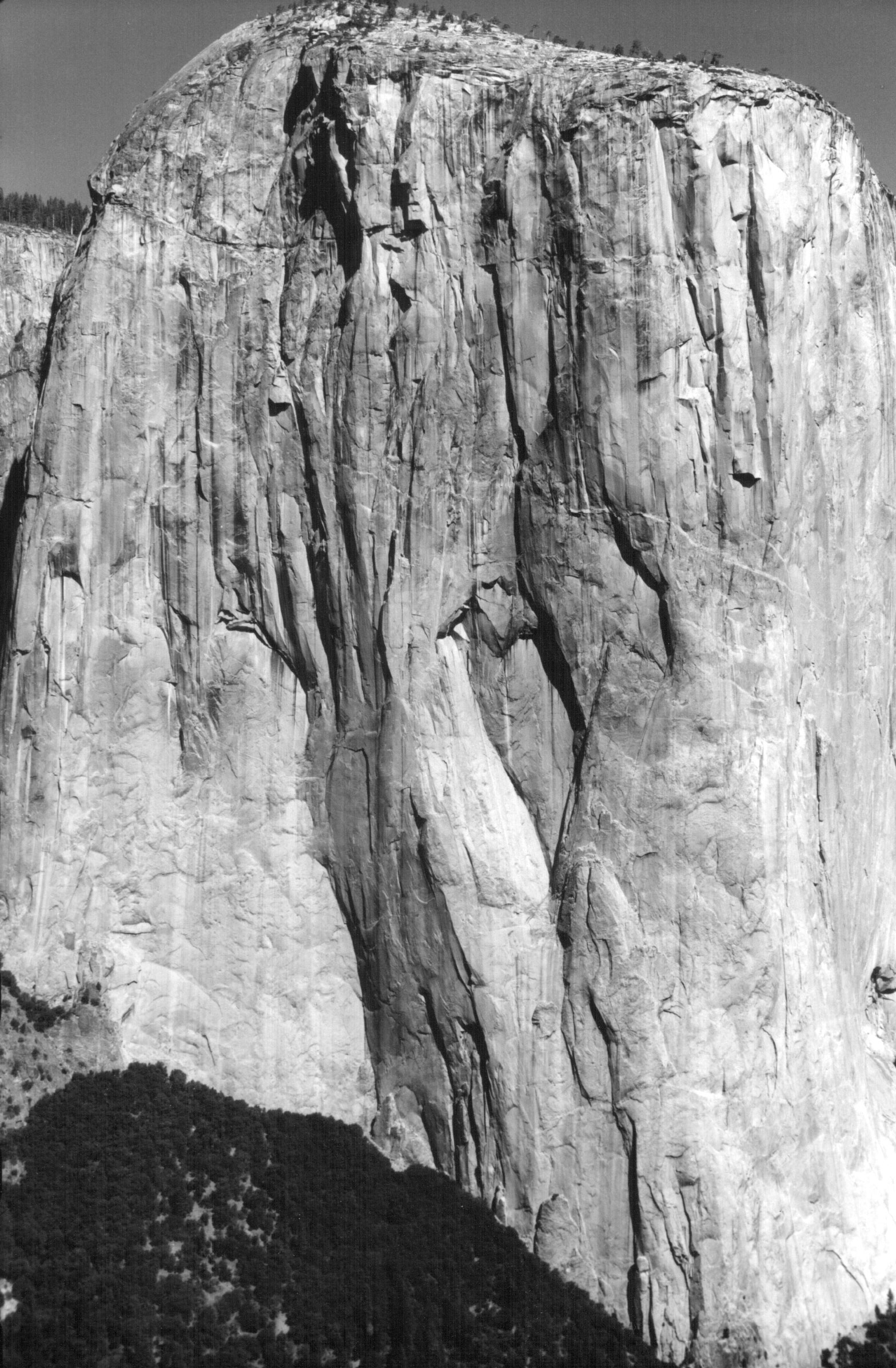 THE SALATHÉ WALL, from the summit of Lower Cathedral Rock, Yosemite National Park, California, 30 September 1961.